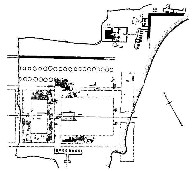 Plan of the american excavations 1912-13 with reconstructed ground plan of the Ramesside Temple in the Asasif.